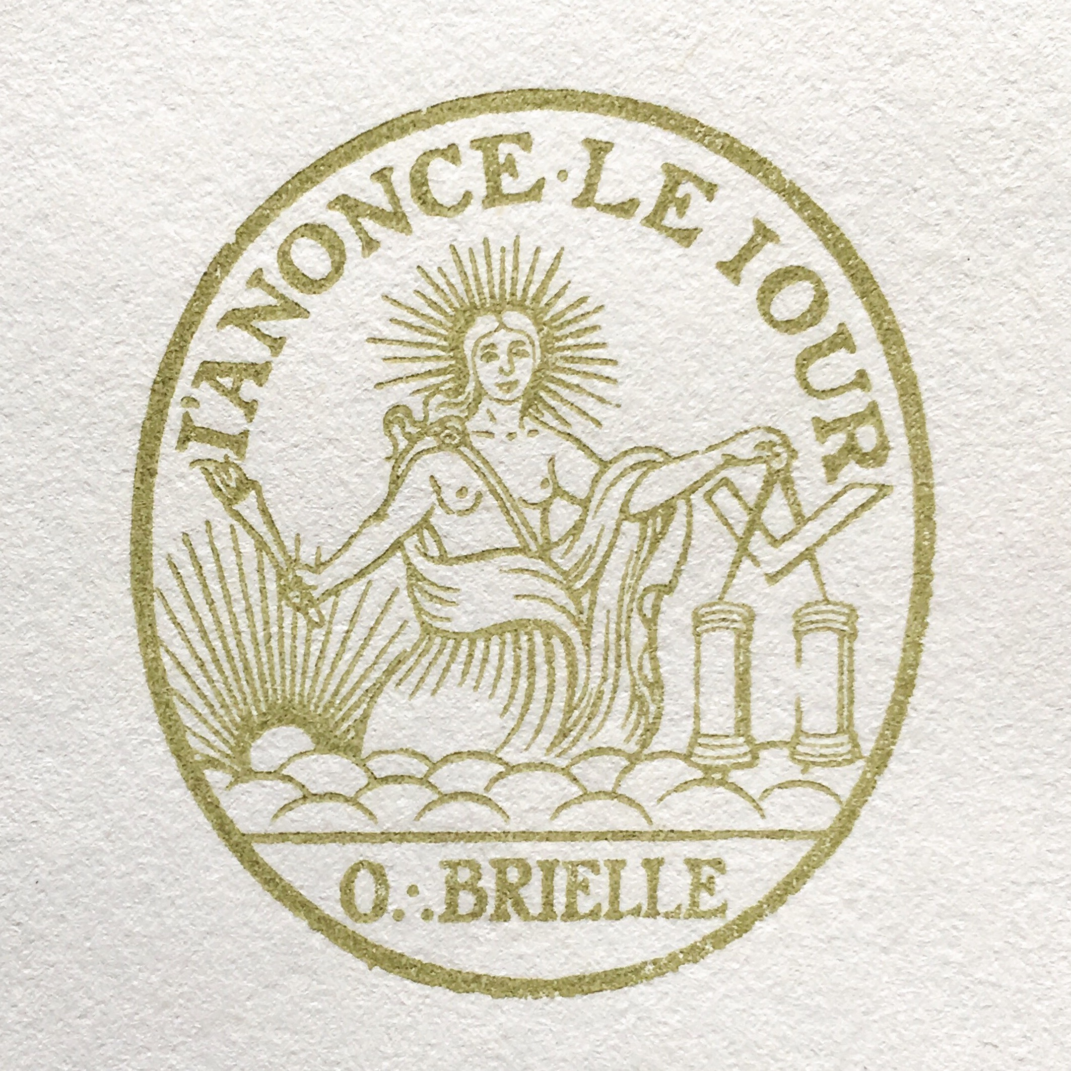 Seal or stamp of Dutch masonic lodge